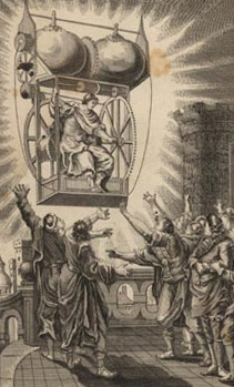 Fictional flying contraption using static electricity, an early science fiction image. Frontispiece of the book "Le philosophe sans prétention" (english "The Philosopher Without Pretention") by Louis Guillaume de La Follie, Paris: Clousier, 1775.